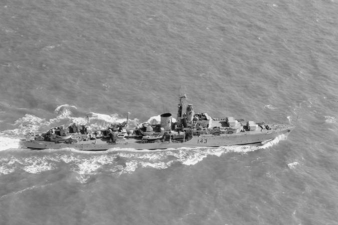 Aerial view of British destroyer HMS MATAPAN underway.